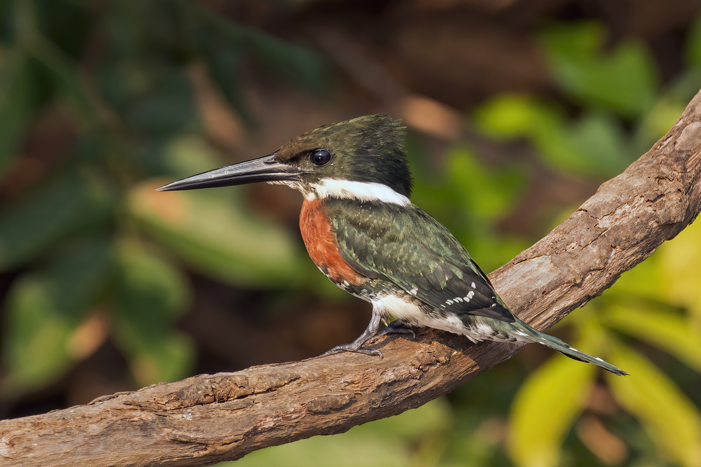 Green kingfisher (Chloroceryle americana) male, Cristalino River, Southern Amazon, Brazil